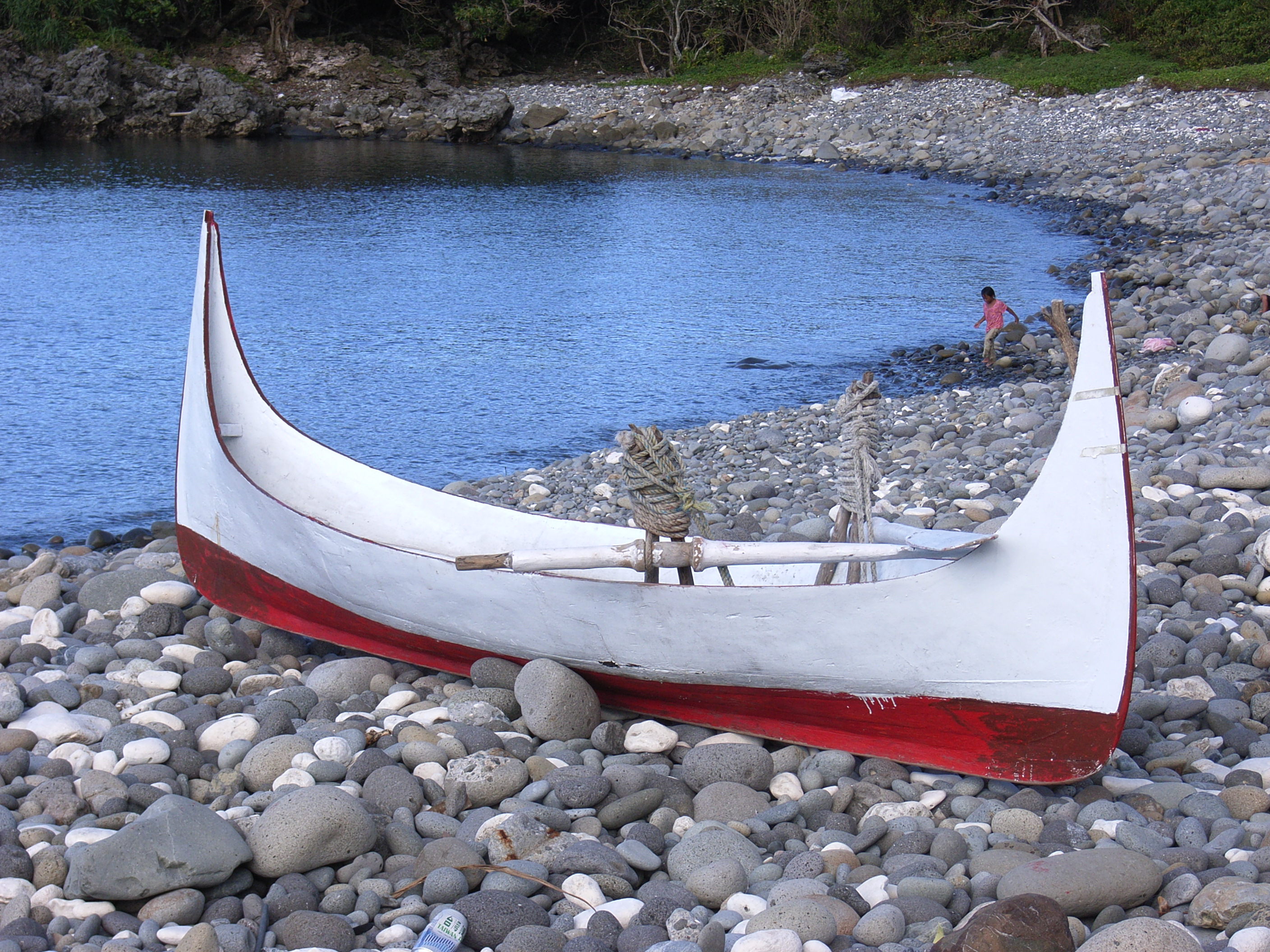 Traditional one person boat at Langdao Village.